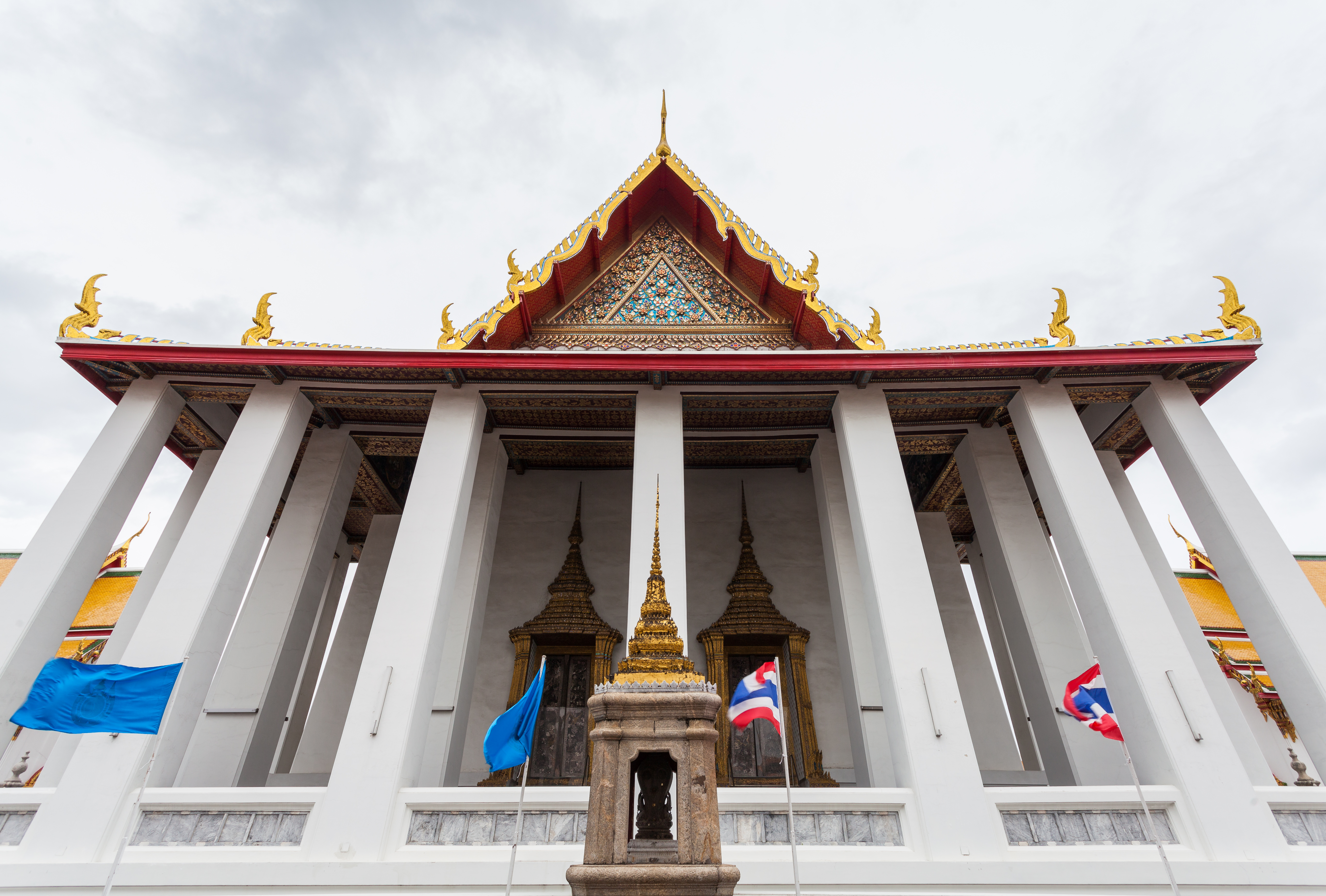 Wat Pho temple, Bangkok, Thailand